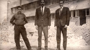 1971 Housing Project at Glass Factory in Iraq for the Ministry of Industry.